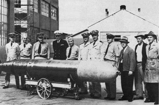 From source: "NTS C.O. Captain Theodore Westfall and Captain Carl Bushnell of the Bureau of Ordnance, third and fourth from left respectively, inspect the Station's first Mk 14 in 1943." Actually, the Mark 14 torpedo had been in service for a decade, so this photo cannot represent the "first" one.